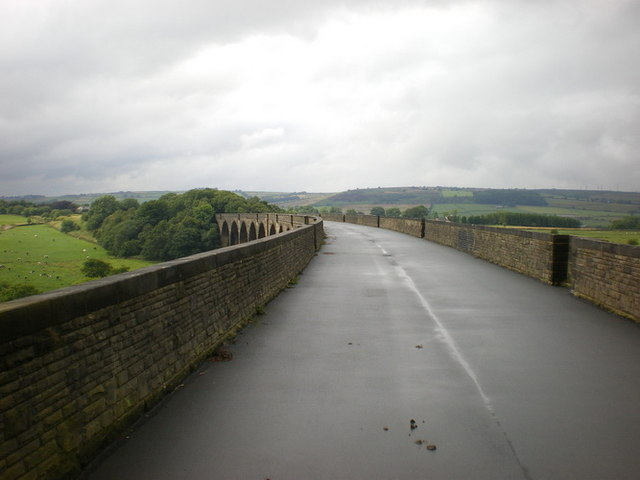 Hewenden Viaduct Tarmac topped and forms part of the Great Northern Trail footpath.